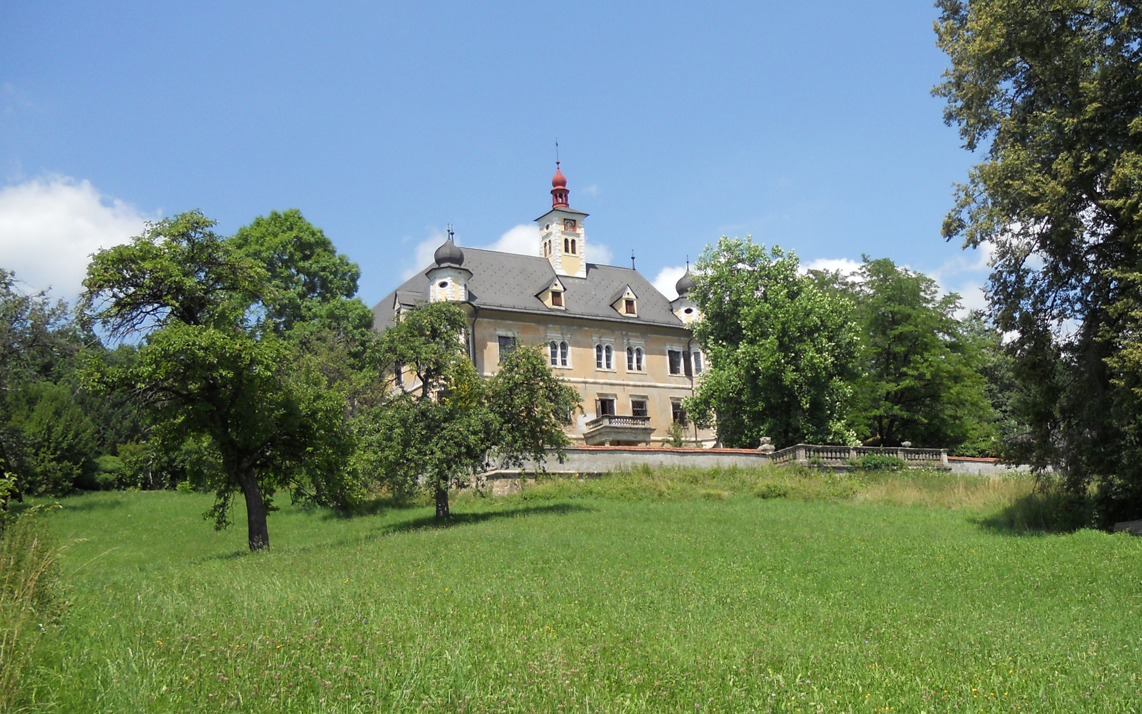 Renaissance castle Spielberg, built in 1570 - showing south façade and clock tower.